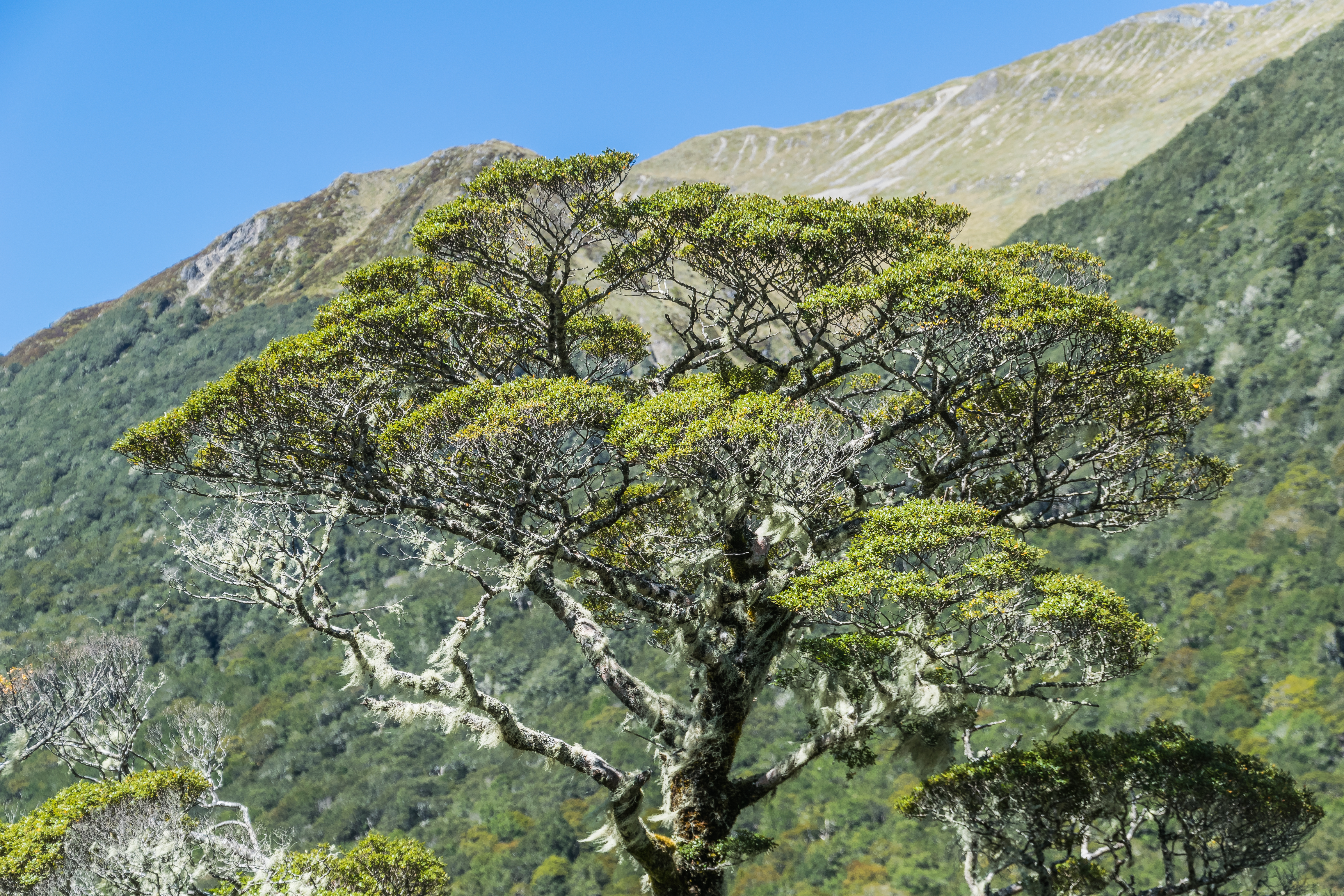 Nothofagus solandri var. cliffortioides in Lewis Pass Scenic Reserve, South Island of New Zealand